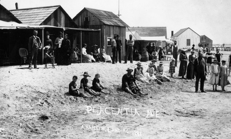 Placentia Ave , Anaheim Landing (which became Seal Beach), 1891.